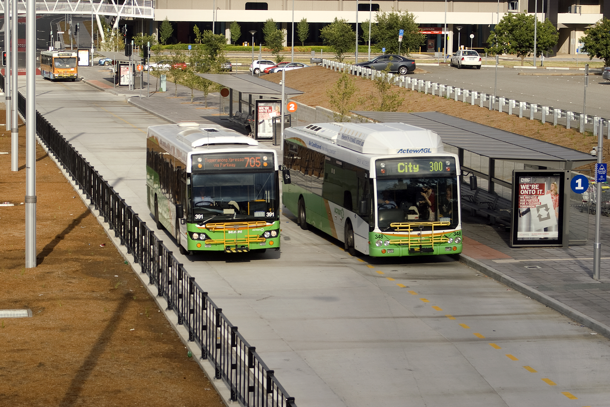 ACTION - BUS 398 - Custom Coaches 'CB60' Evo II bodied MAN 18.320 (Euro V) and BUS 339 CC (SA) 'CB60' bodied Scania L94UB (CNG)at Belconnen Community Bus Station.